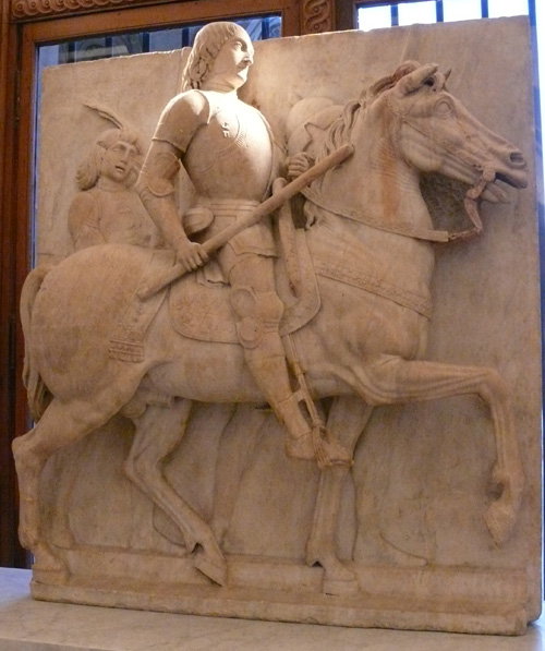 Roberto Malatesta, lord of Rimini (1442–1482). Marble, ca. 1482–1484, fragment of a funerary monument erected by order of Sixtus IV under the portico of the older Saint-Peter's basilica in Rome.